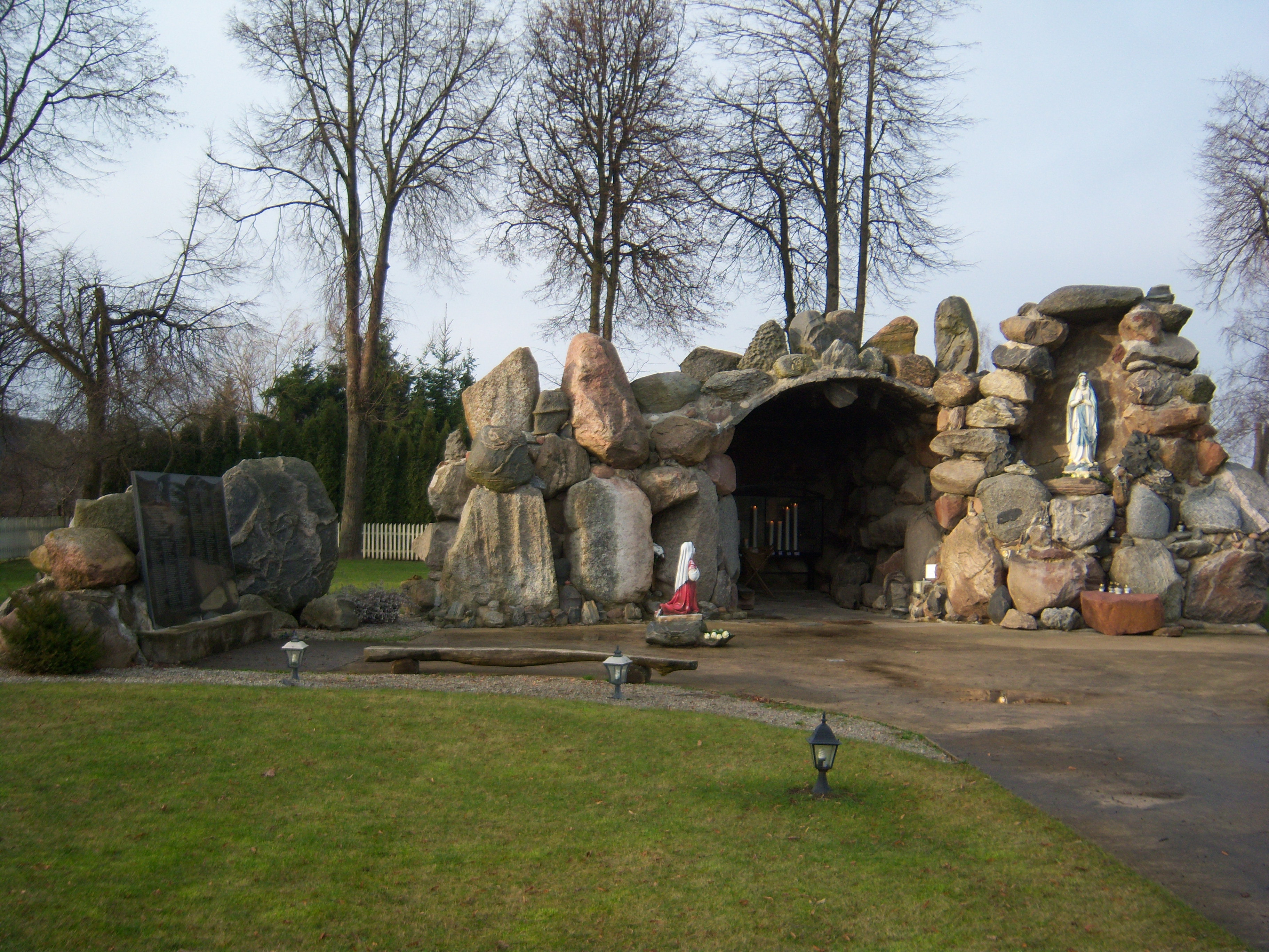 Nemakščiai Lourdes, Raseiniai District, Lithuania